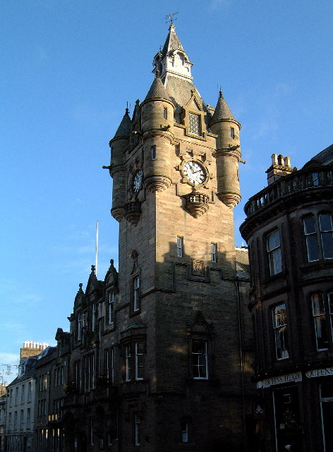 Hawick Town Hall